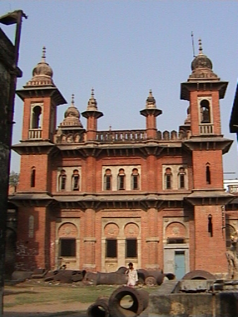 Hindu culture, have attributed supreme importance to the preservation of tradition Classical civilizations, and especially the Indian one, have attributed supreme importance to the preservation of tradition. Its central idea was that social institutions, scientific knowledge and technological applications need to use "heritage" as a "resource". Using contemporary language, we would say that ancient Indians considered, as social resources, both economic assets (like natural resources and their exploitation structure) and factors promoting social integration (like institutions for preserving knowledge and maintaining civil order). Ethics considered that what had been inherited should not be consumed, but should be handed over, possibly enriched, to successive generations. This was a moral imperative for all, except in the final life stage of sannyasa